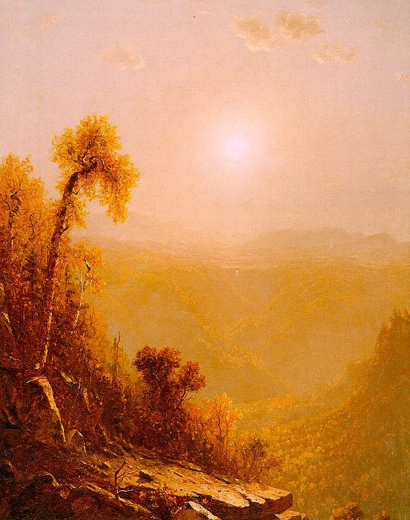 October in the Catskills